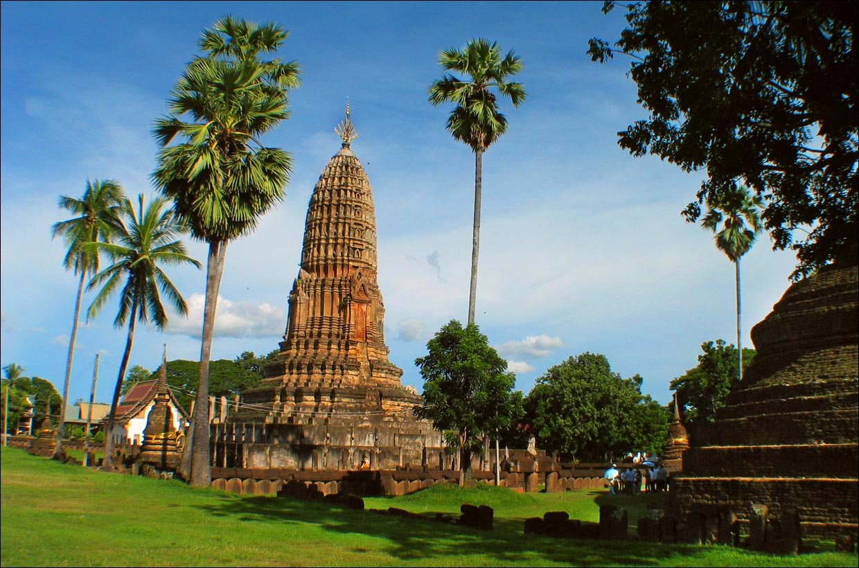 Wat Phra Sri Rattana Mahathat, Si Satchanalai, northern Thailand